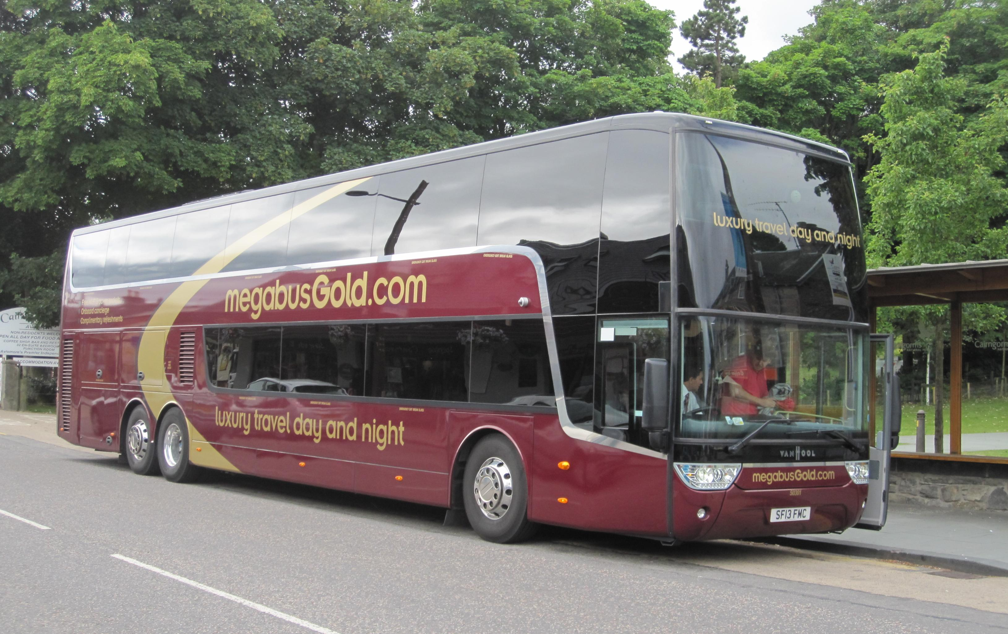 Stagecoach Megabus Gold Vanhool Astromega 50301 in Aviemore on G10 service